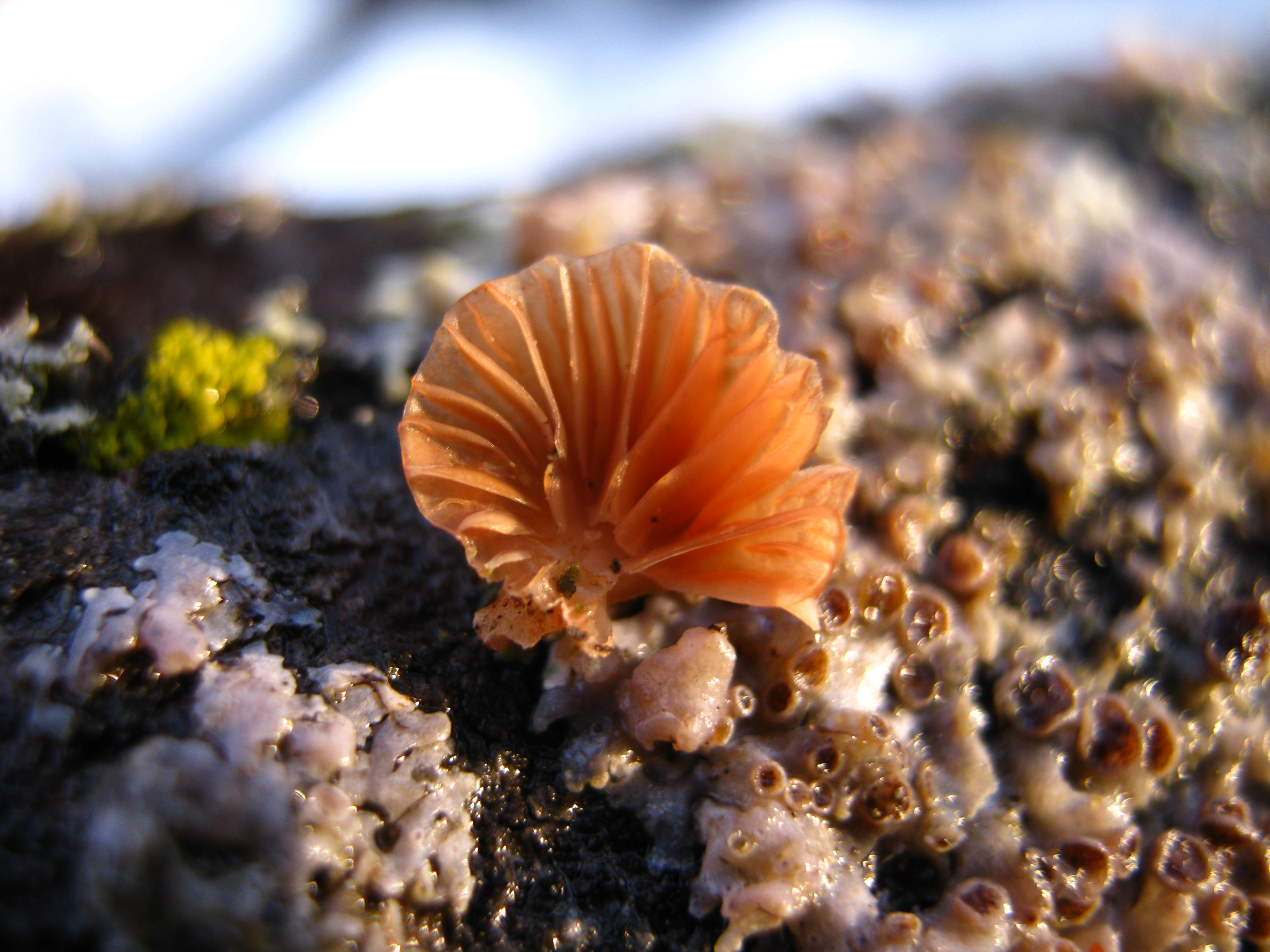 Panellus ringens (Fr.) Romagn Image location: Ottawa, Ontario, Canada found today in a branche near melting snow suspected to be panellus ringens. Recognized by sight For more information about this, see the observation page at Mushroom Observer.